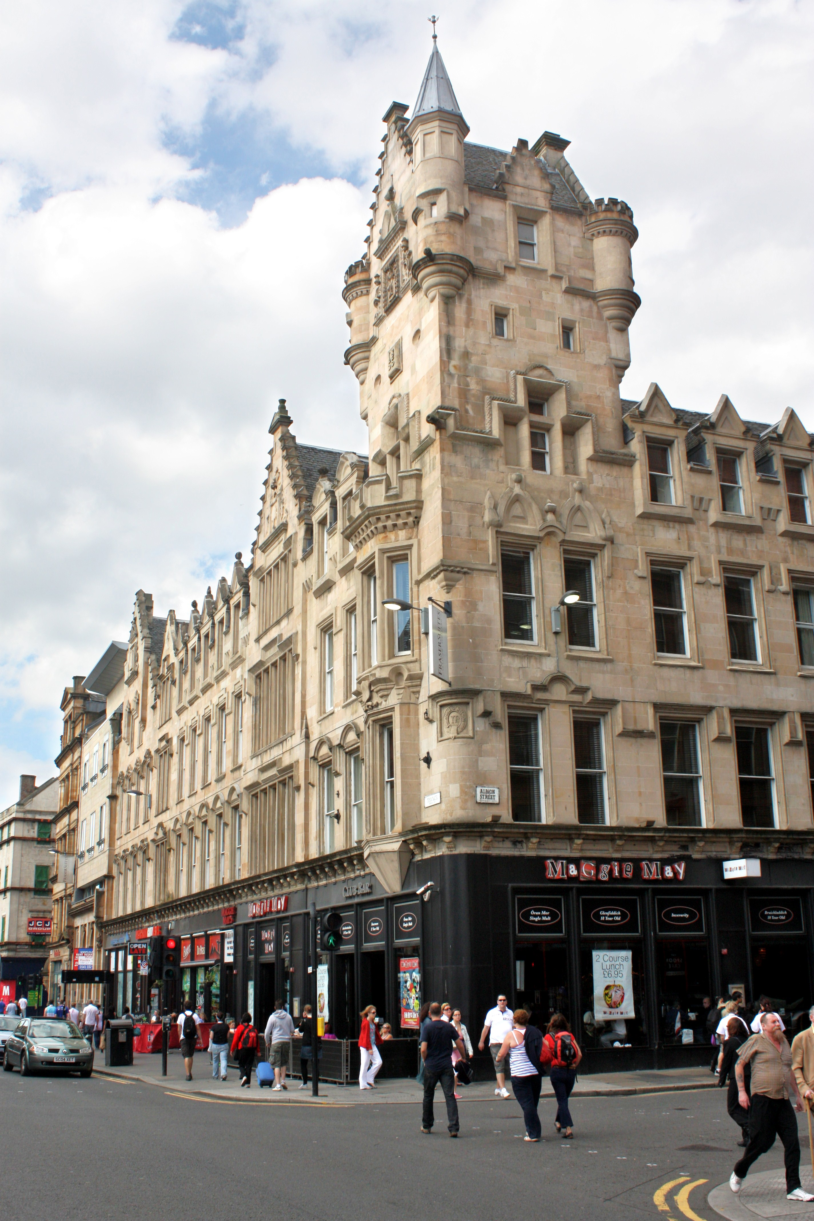 Corner of Albion and Trongate. Merchant City, Glasgow, Scotland.